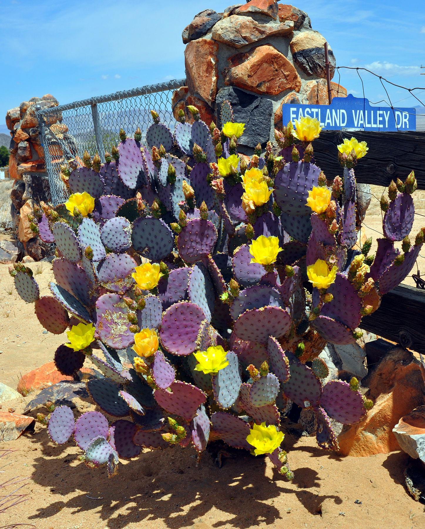 Healthy blooming Opuntia engelmannii Yellow flowering Cacti